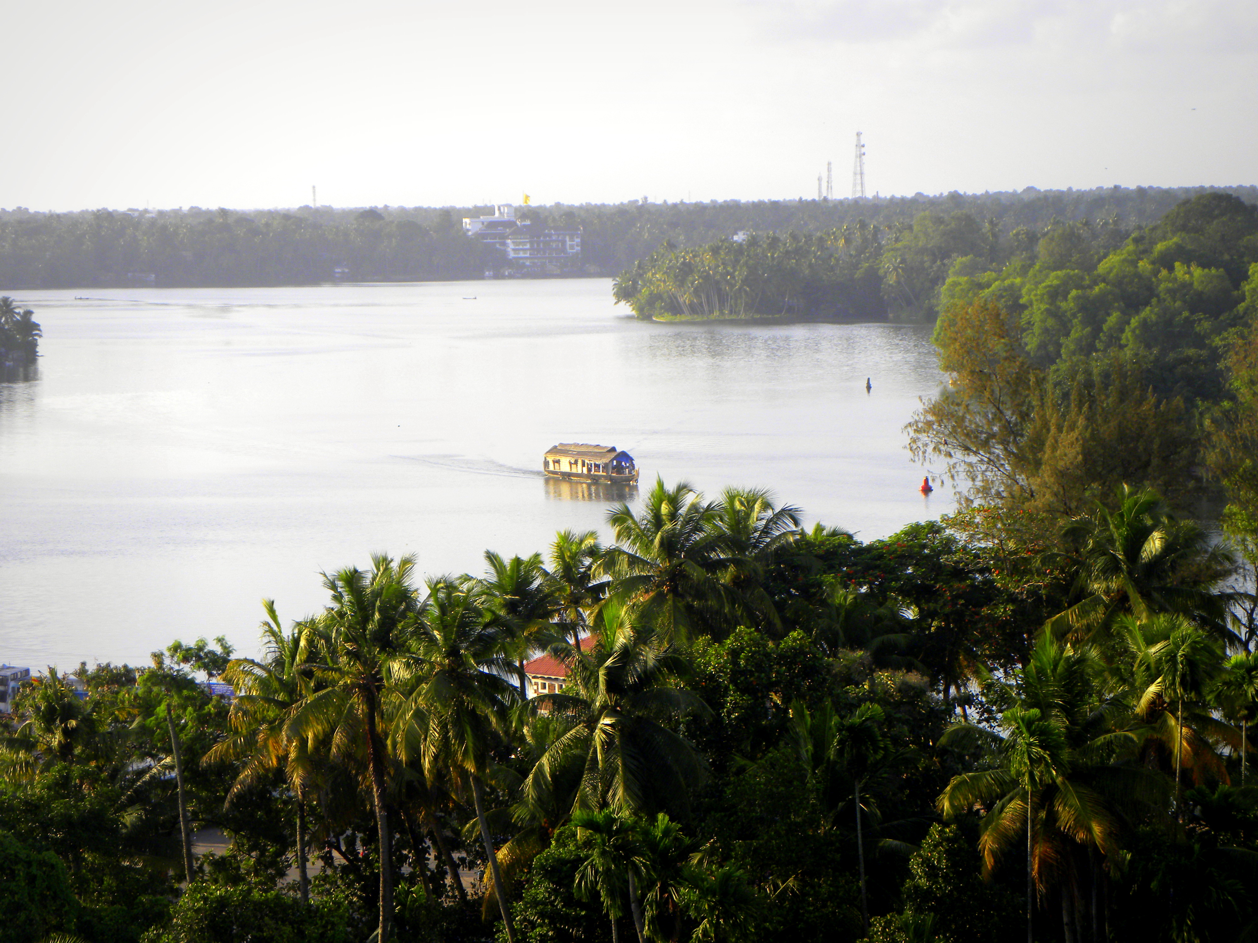 A top view of Ashtamudi backwaters - Ashtamudi lake & wetlands is one of the Ramsar sites in India